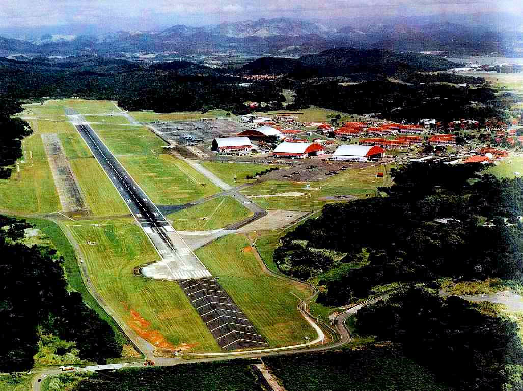 Howard Air Force Base, Canal Zone, 1990's